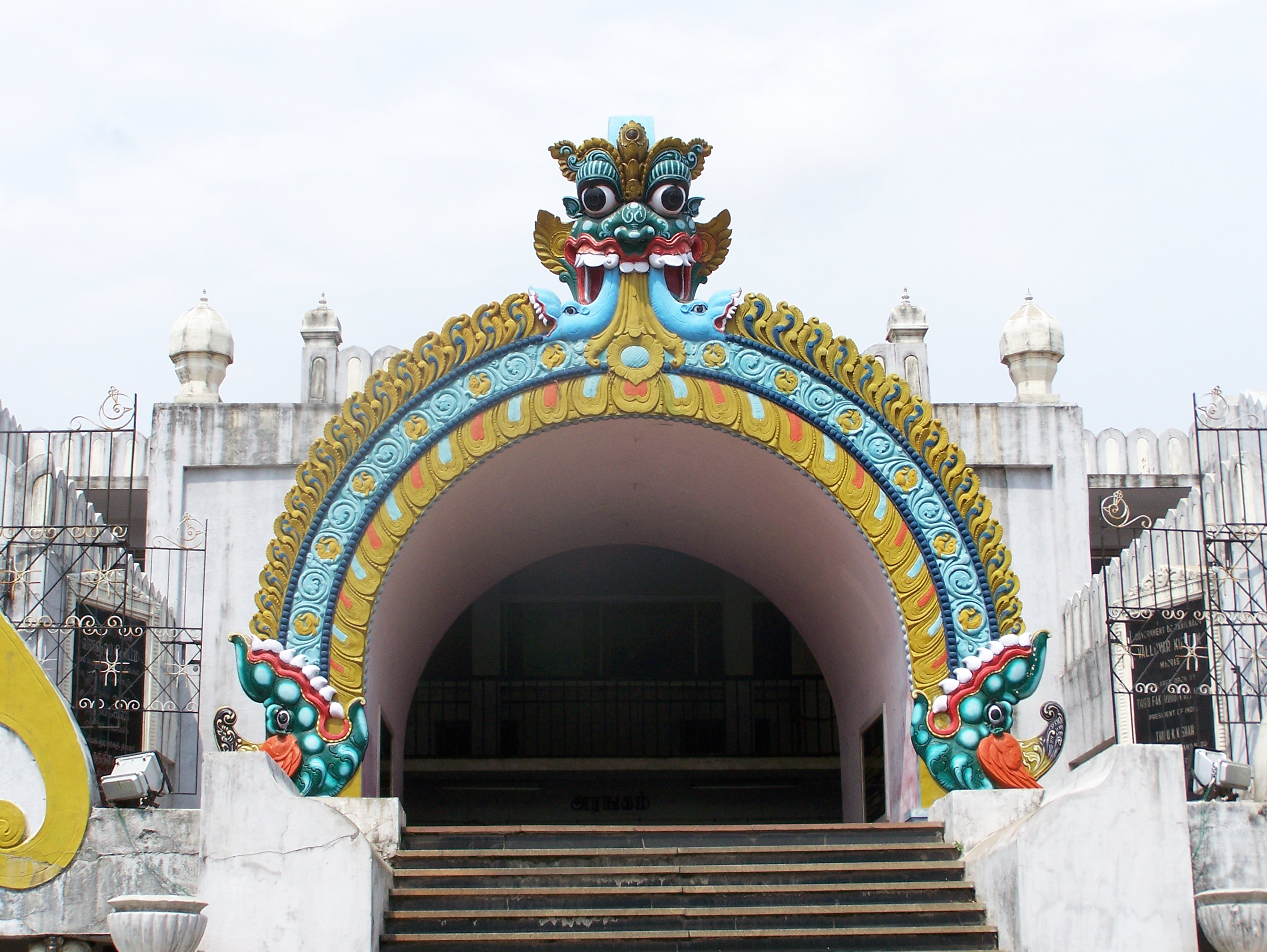 Image of entrance to Valluvar Kottam, in Tamil Nadu, India